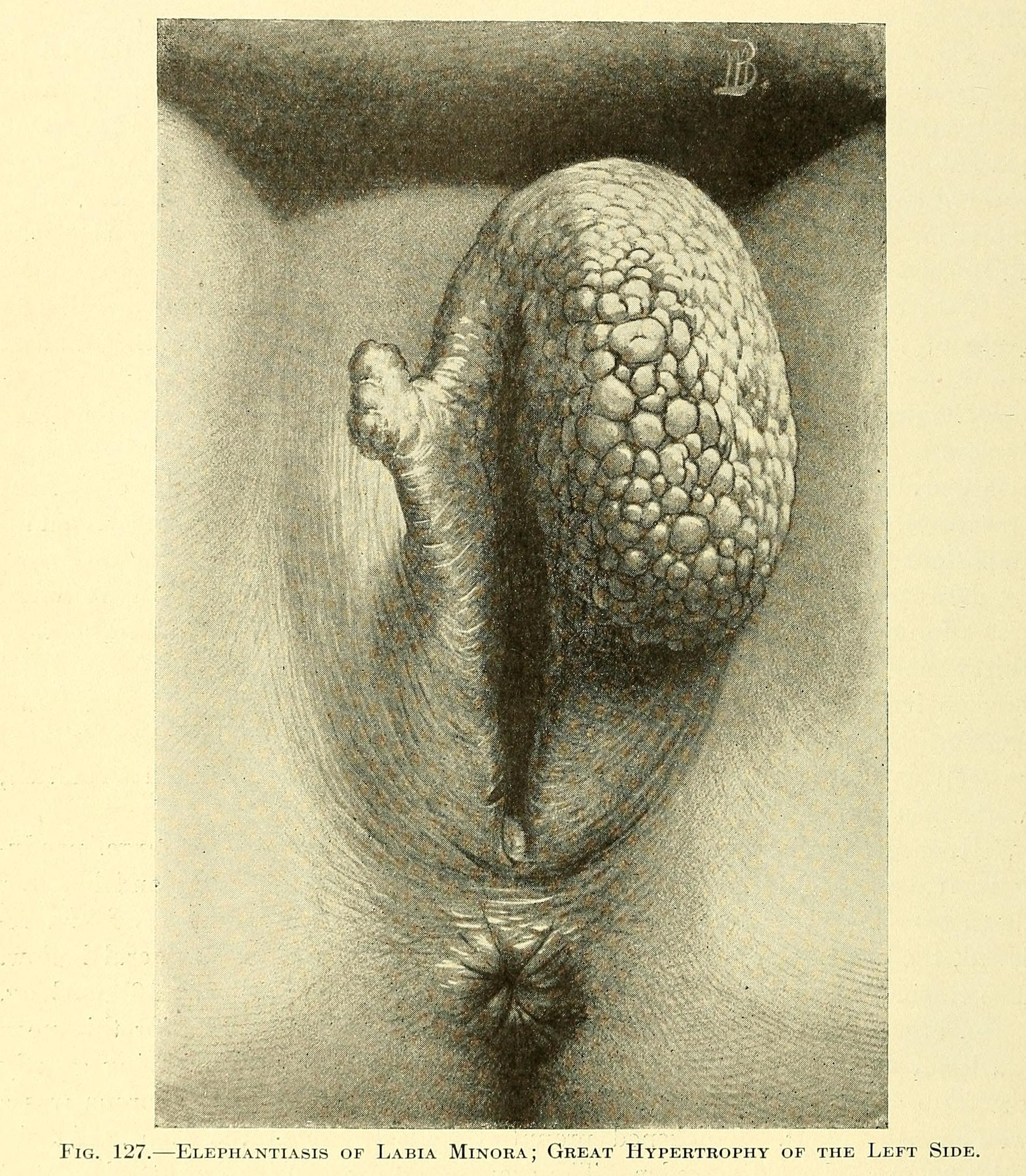 Elephantiasis of Labia Minora; Great Hypertrophy of the Left Side. Title: Operative gynecology : Year: 1906 (1900s) Authors: Kelly, Howard A. (Howard Atwood), 1858-1943 Subjects: Gynecology Gynecology Gynecologic Surgical Procedures Publisher: New York and London : D. Appleton and company Text Appearing Before Image: putial folds encircled the glans. At thesides lay the enlarged nympha?. The growth had a broad base of attachment atthe symphysis. The urethra lay intact beneath the clitoris, but the vaginal out-let was thickened and corrugated, and showed several superficial areas of ulcera-tion from ^ to 1 cm. in breadth. A fetid leucorrheal discharge issued fromthe vagina. On the dorsal surface of the tumor was an irregular white patch2 by 1 cm. (f- by § inch), probably representing an old area of ulceration inmarked contrast to the surrounding deeply pigmented structures. Two little 240 DISEASES OF THE EXTERNAL GENITALS. pedunculate tumors, the size of a pea and a hazelnut respectively, hung fromthe junction of the right nympha with the clitoris. Scars in the left groin andin the supraclavicular region were evidences of old syphilitic disease. The following case presents a picture of the disease when limited to the labiaminora: The patient was twenty-eight years old, and had passed through three Text Appearing After Image: '